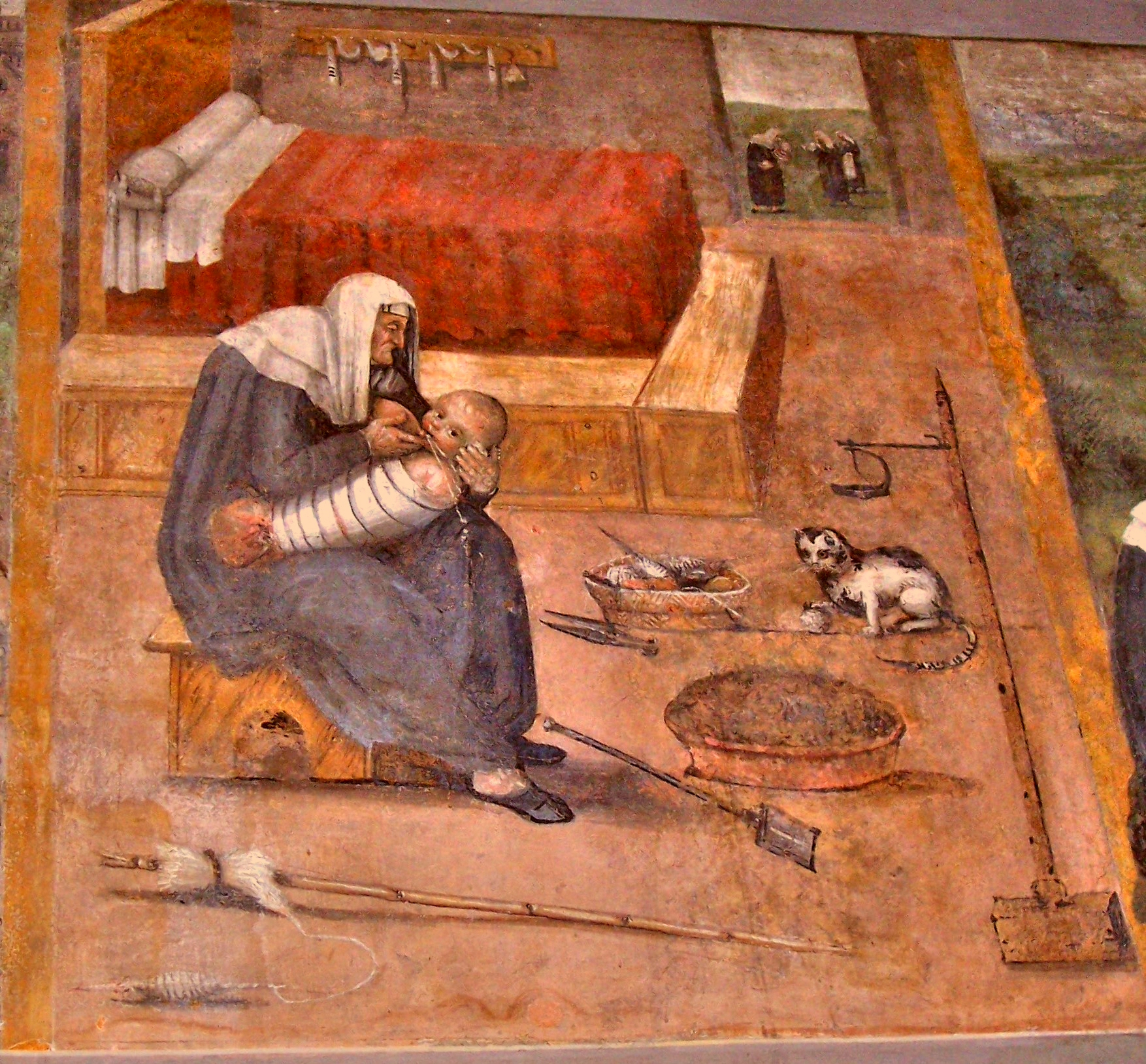 The Miracle of Monna Tancia by Roberto or Luberto from Montevarchi. 15th century fresco in Santa Maria delle Grazie Church at San Giovanni Valdarno